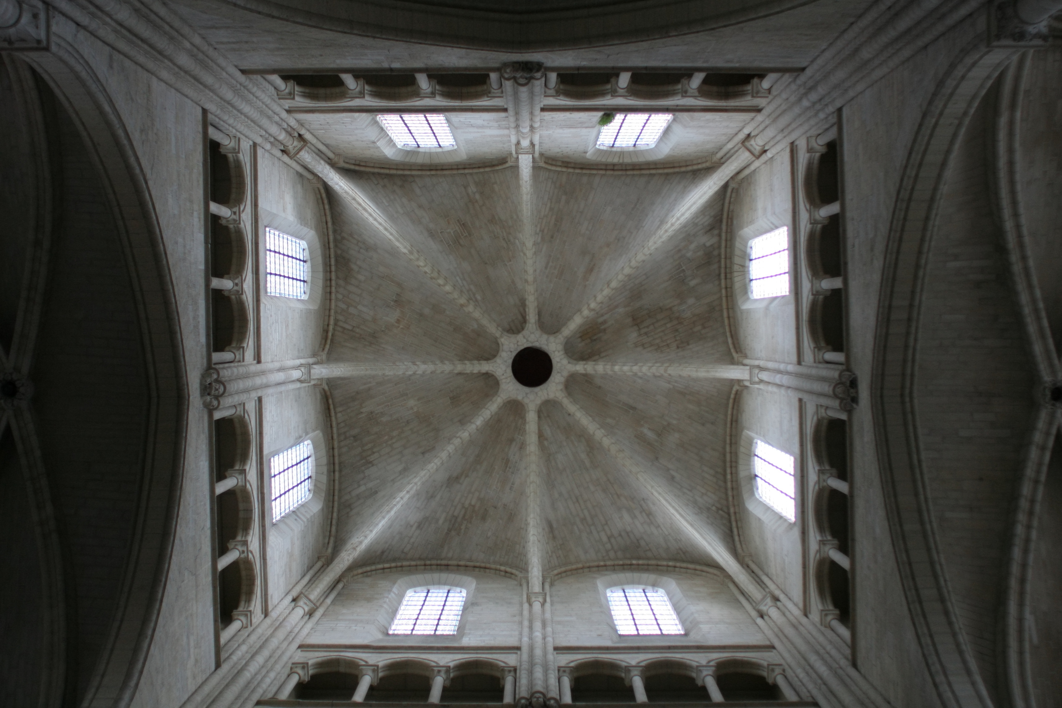 Crossing tower of Laon cathedral (West is upside).